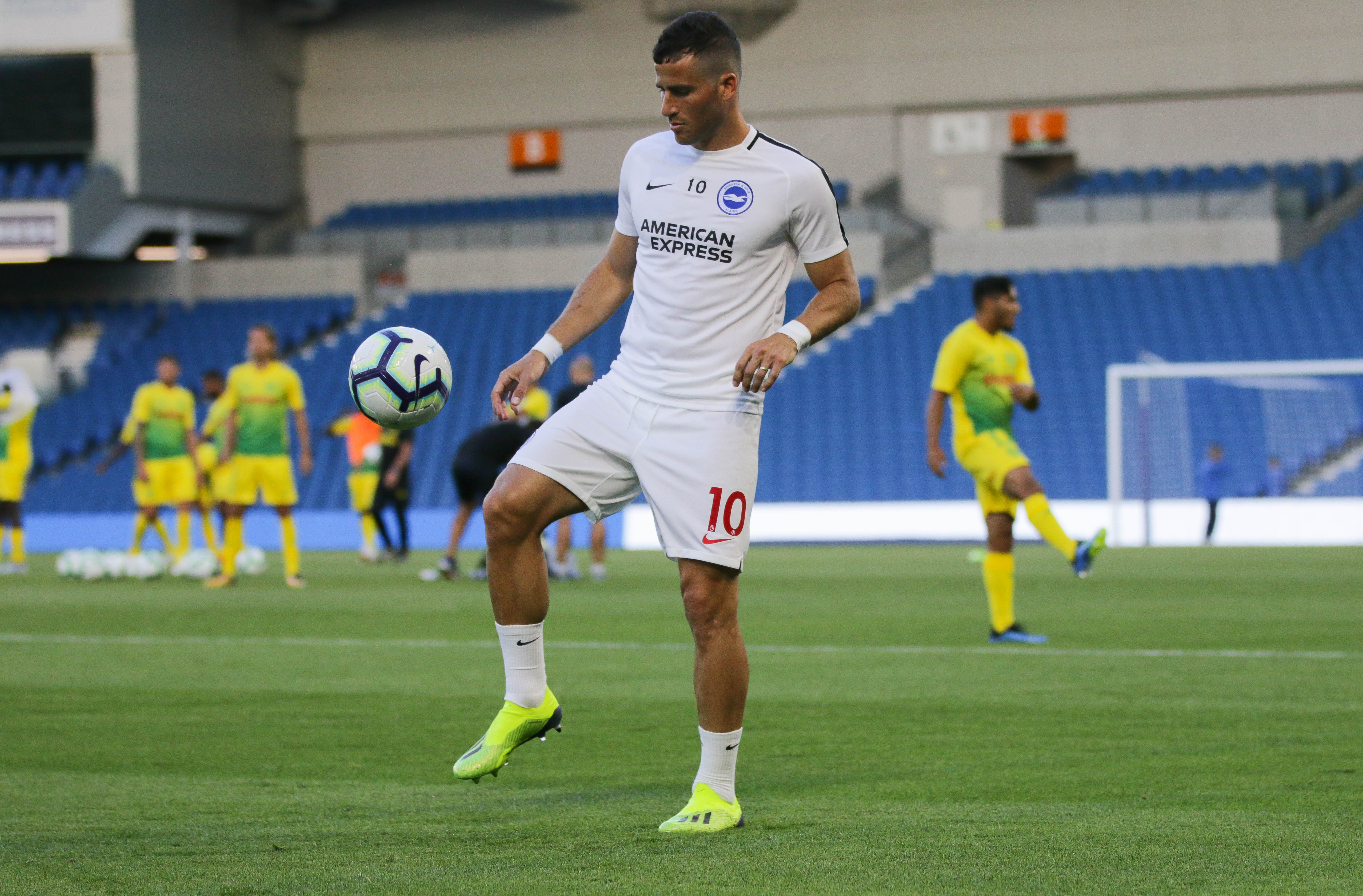 BHA v FC Nantes pre season 03 08 2018-162.jpg